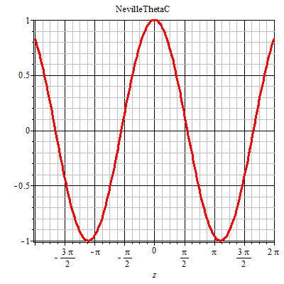 Neville ThetaC function Maple plot